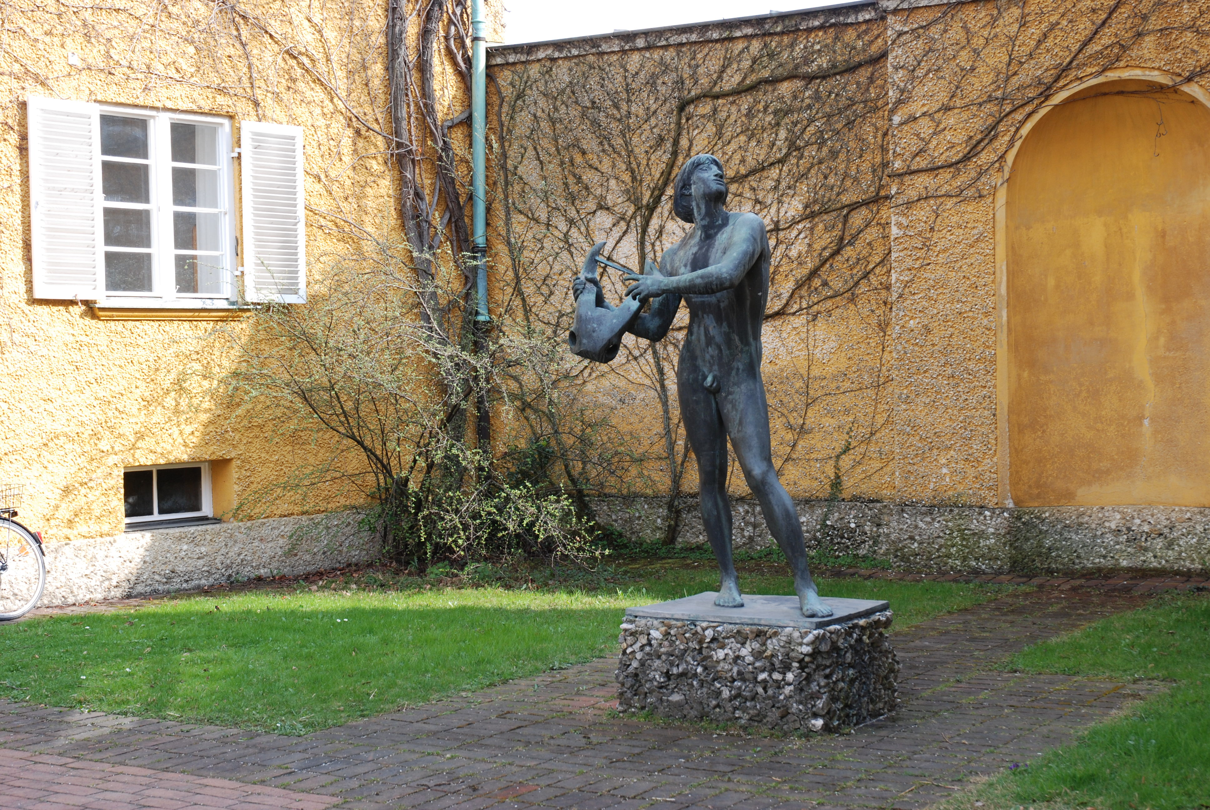 Martin Mayer' s Orpheus, bronze, 1962, Löfftz-Strasse, Borstei, München